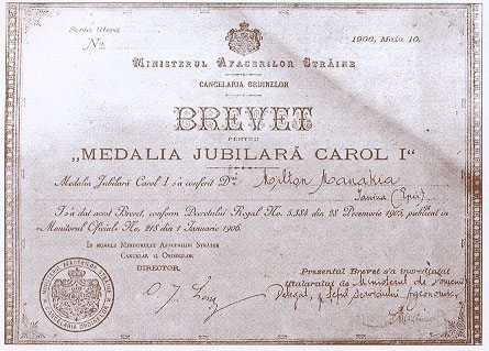 Golden medal certificate won by the Manaki brothers.